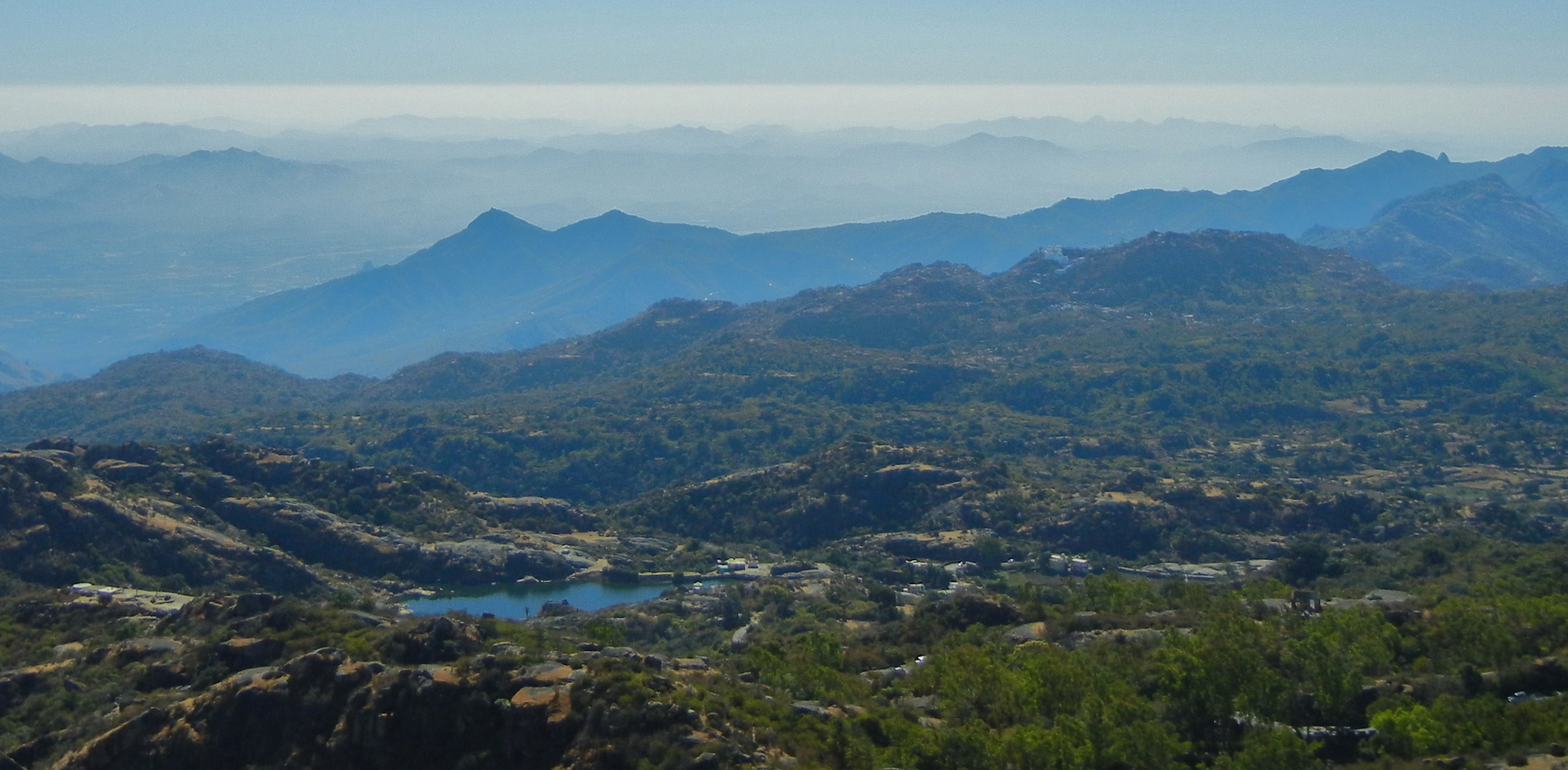 Arbuda mountains of the Aravalli Range as viewed from Guru Shikhar, highest point in Rajasthan.